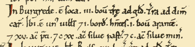 The entry for the village of Burreth, Lincolnshire, from the Domesday Book at the end of the 11th century.